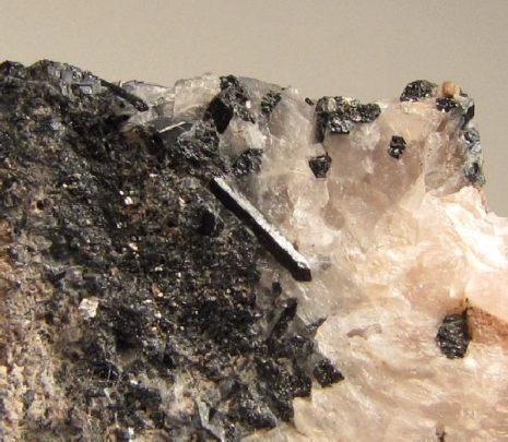 Långbanite Locality: Långban, Filipstad, Värmland, Sweden (Locality at ) Size: 4.8 x 2.5 x 1.2 cm Langbanite is a very rare complex silicate and this rich and fine old-time specimen is from the namesake Type Locality in Sweden. This rich, two-sided matrix sliver features numerous sub-metallic, orthorhombic crystals including a large 5 mm crystal. Ex. Charles Velte Collection.